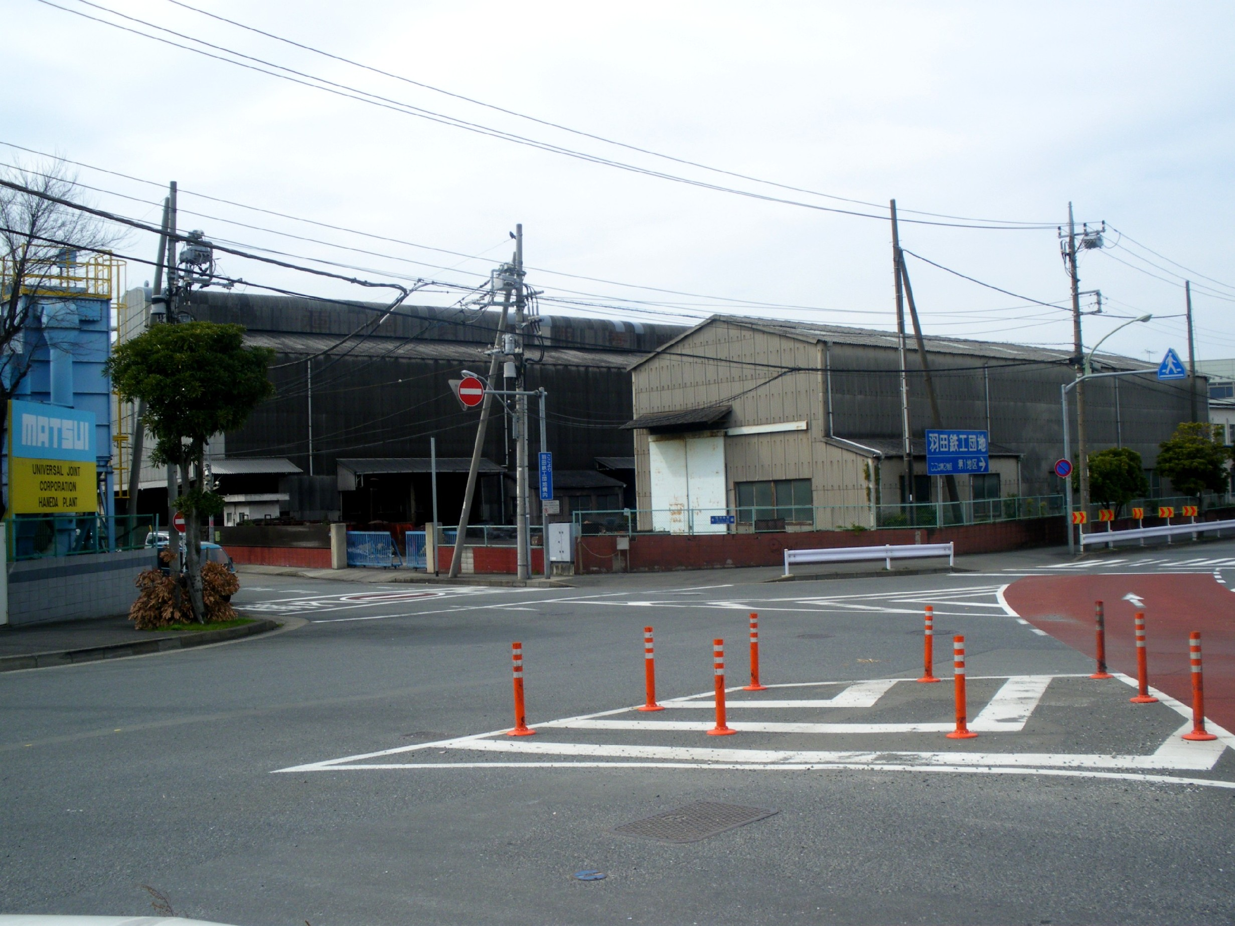 haneda industrial estate of iron factories,Showajima(Ota,Tokyo)